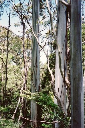 Eucalyptus nitens, Point Lookout, New_England_National_Park, NSW